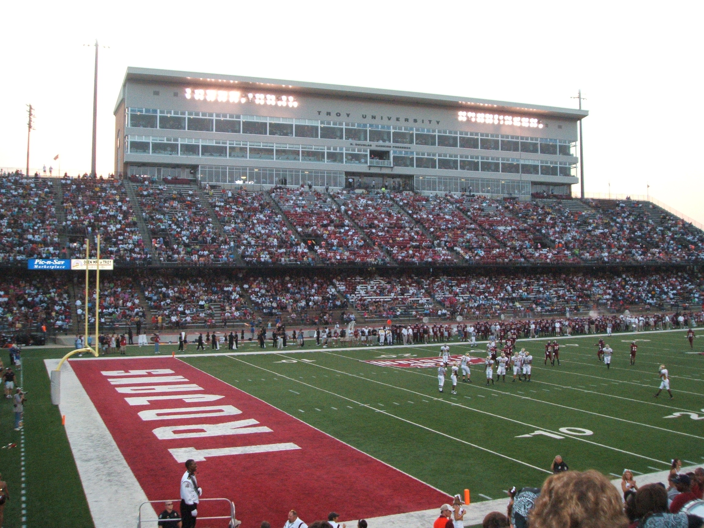 This is a picture of Movie Gallery Stadium